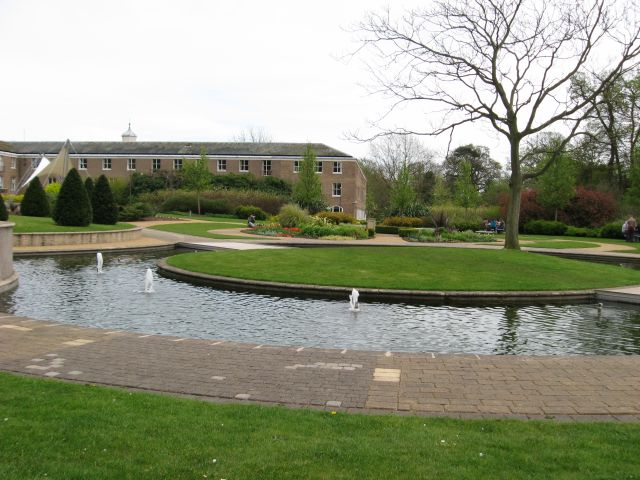 Part of the Millennium Garden, University of Nottingham It is based on the theme of time.